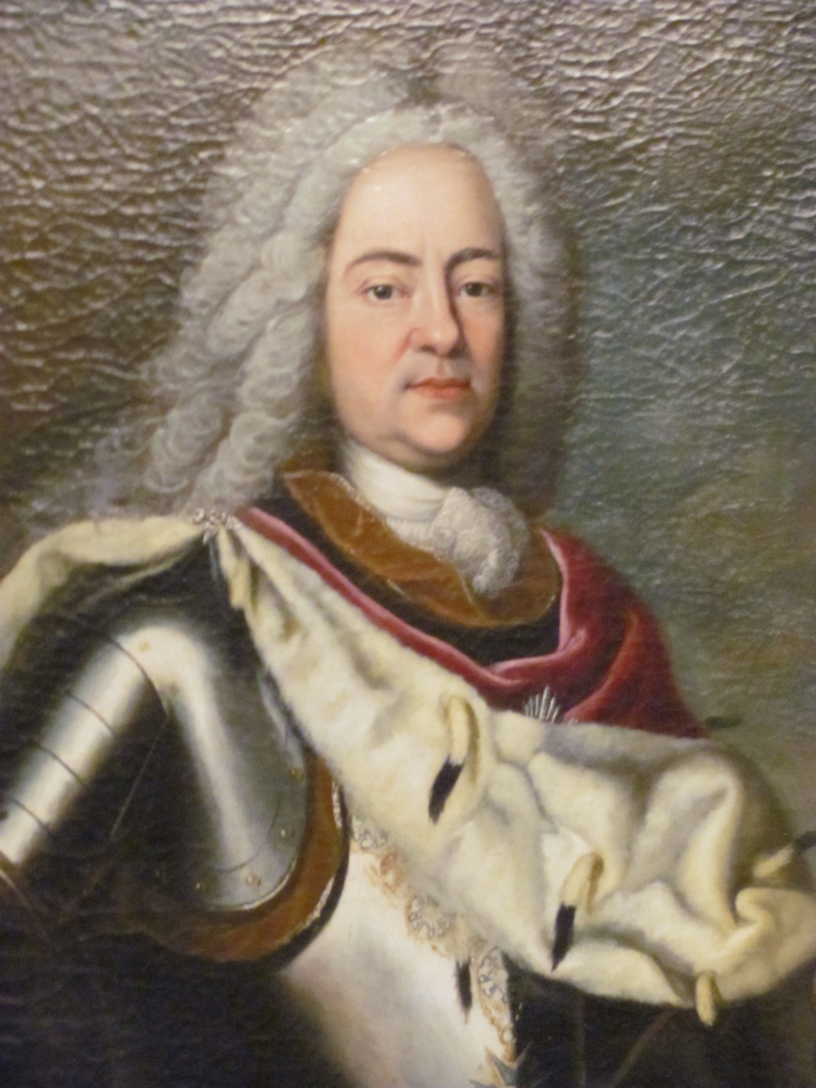 Count Philipp Reinhard von Hanau – Historisches Museum Hanau